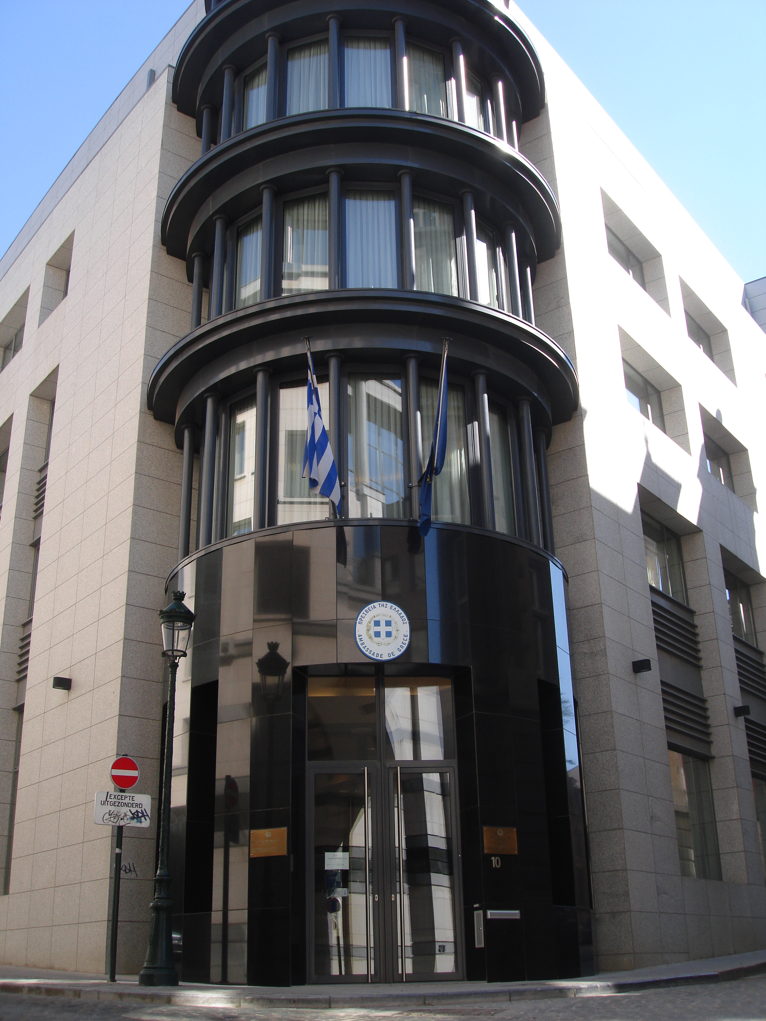 Embassy of Greece in Belgium